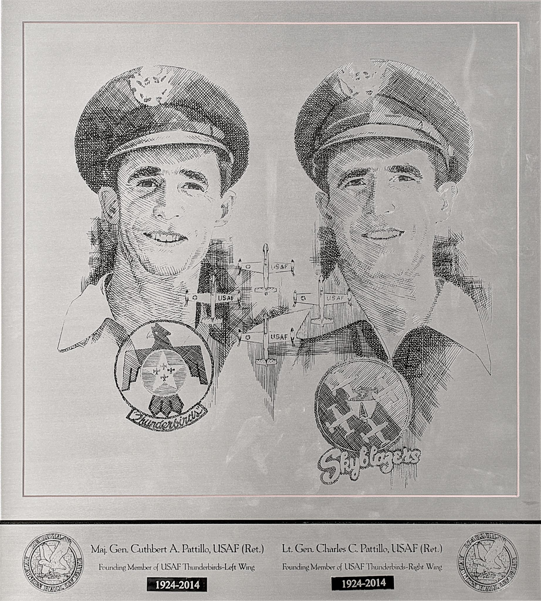 Maj. General Cuthbert A. Pattillo (1924 - 2014); Lt. General Charles C. Pattillo (1924 - 2019)